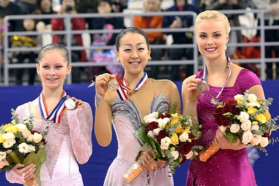 The ladies podium at the 2012 Cup of China. From left: Julia Lipnitskaia (2nd), Mao Asada (1st), Kiira Korpi (3rd)